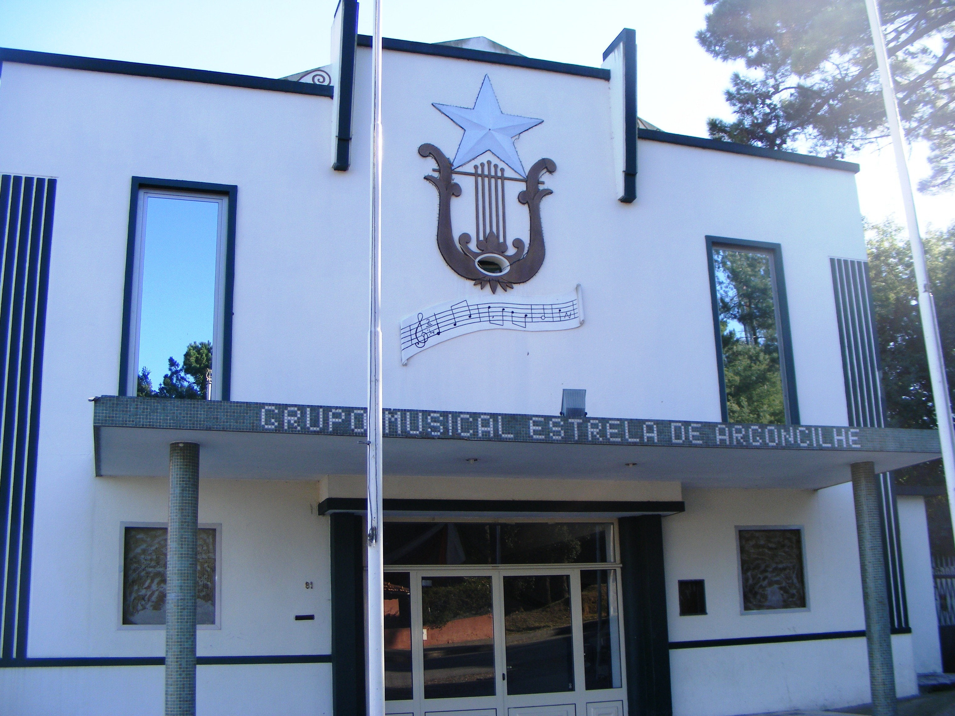 Musical Star Group of Argoncilhe, in the center of parish.